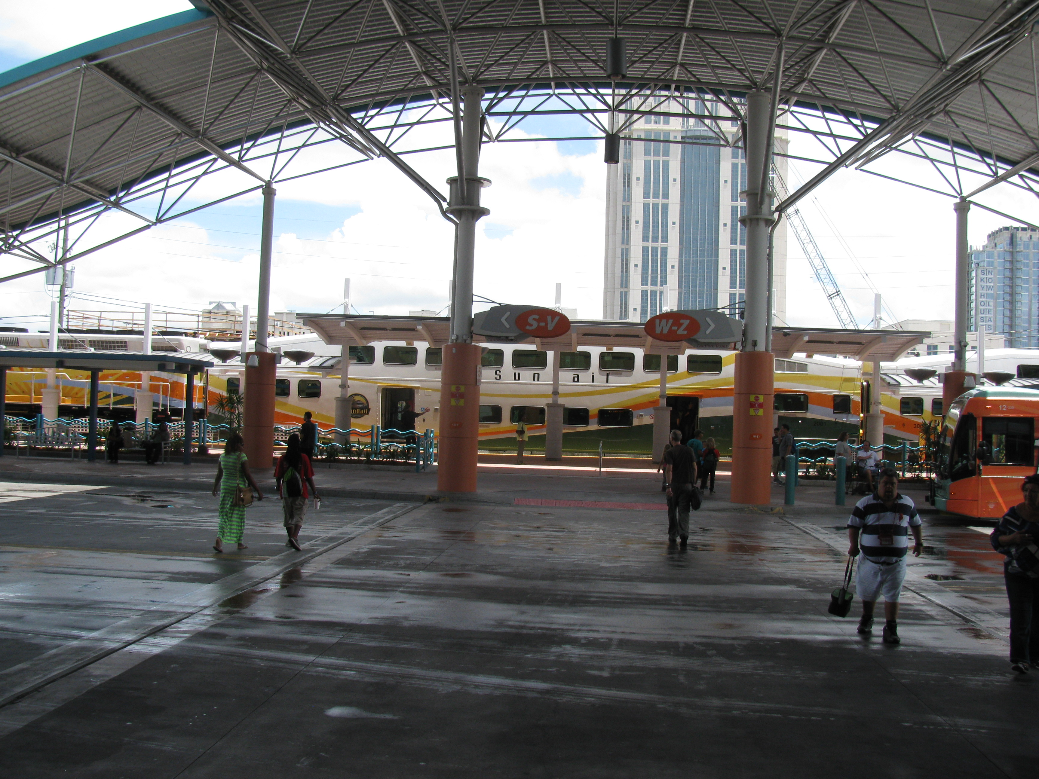 Bus bays and a SunRail train at Lynx Central Station in May 2014